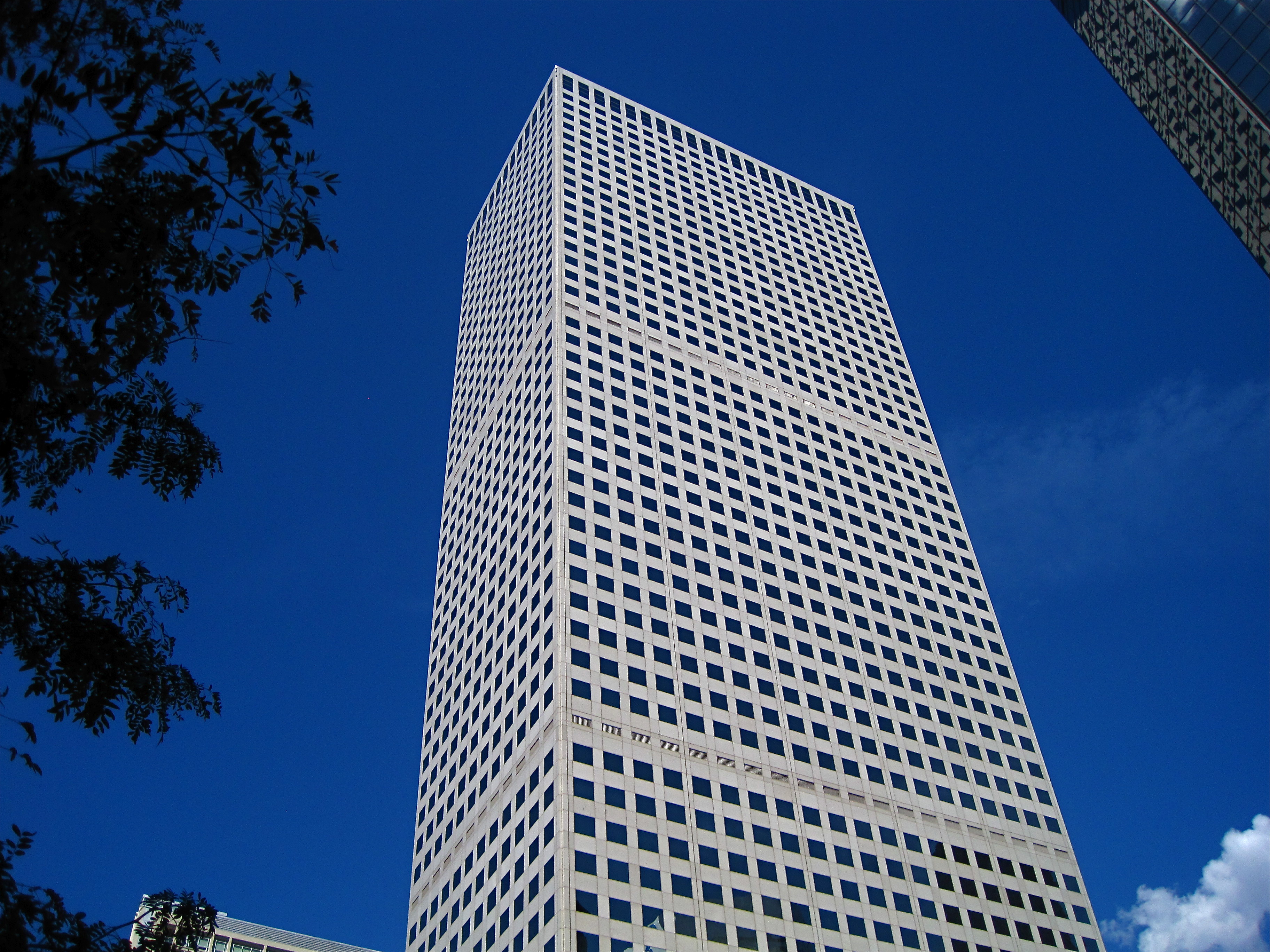 Republic Plaza in Denver, Colorado USA